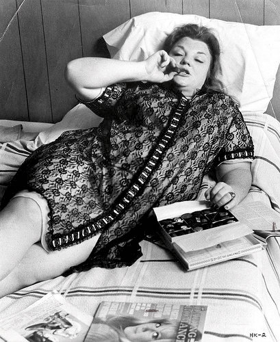 Shirley Stoler in The Honeymoon Killers press photo, 1970